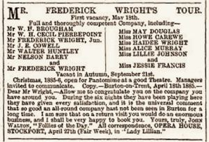 Scanned from original Victorian newspaper, The Era, 25 April 1885 (page 6). This promotes an 1885 tour by the Frederick Wright Dramatic Company.